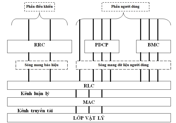 Kiến trúc giao thức giao tiếp vô tuyến phiên bản R99